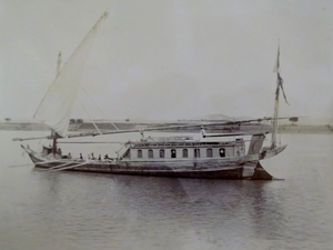 Image from original 19th century silver print in the book "A Month in Palestine and Syria, April 1891" (author unknown), a travel story through the Holy Land.